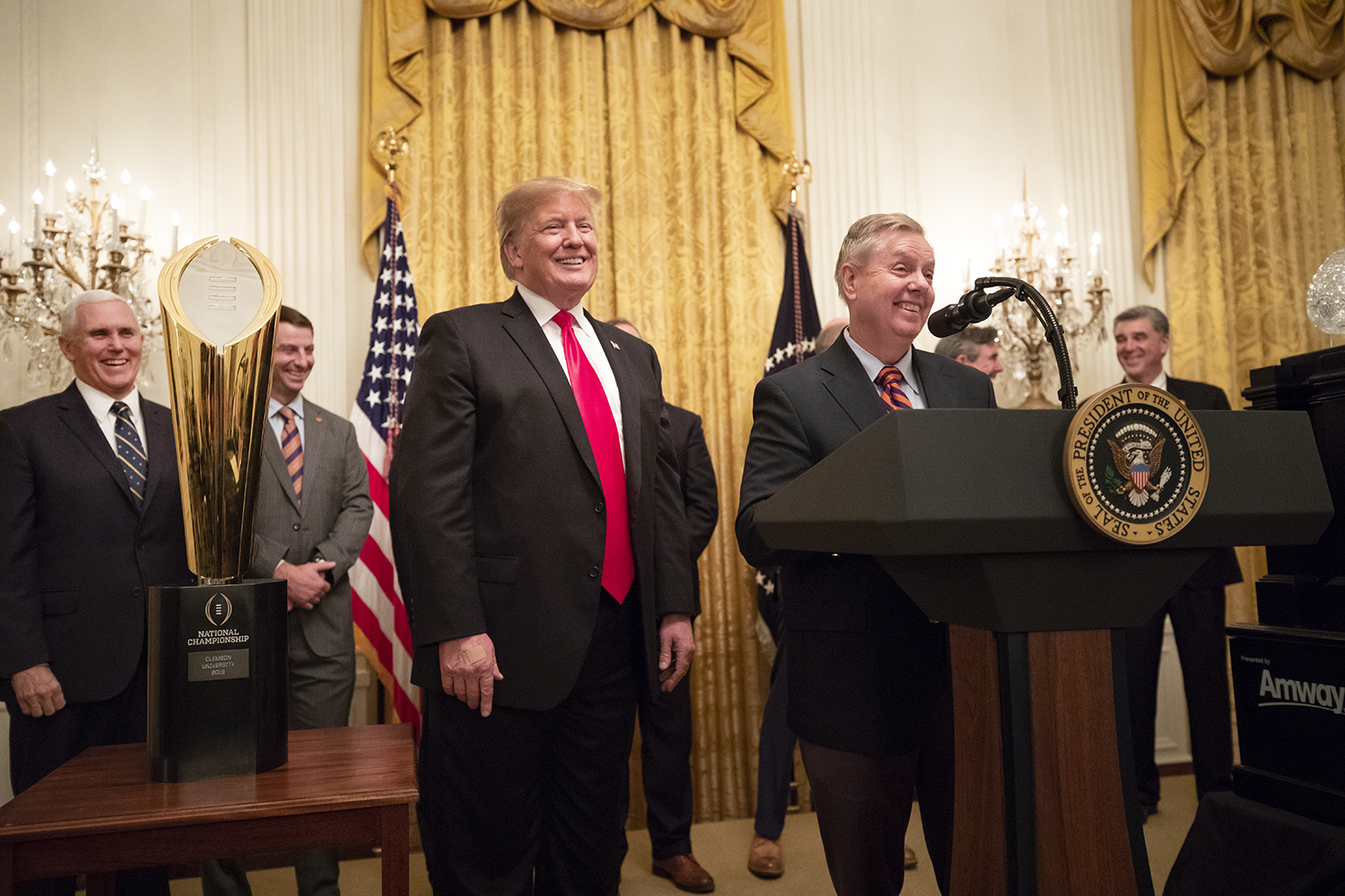 Senator Lindsey Graham (R-SC), joined by President Donald J. Trump, delivers remarks to the Clemson players during a celebration for the 2018 NCAA College Football National Champions the Clemson Tigers Monday, January 14, 2019, in the East Room of the White House. (Official White House Photo by Joyce N. Boghosian)